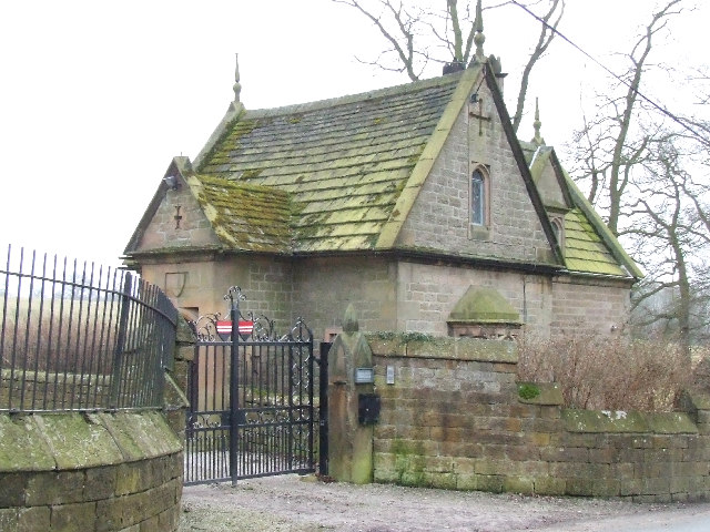 The Lodge of Stanton Hall